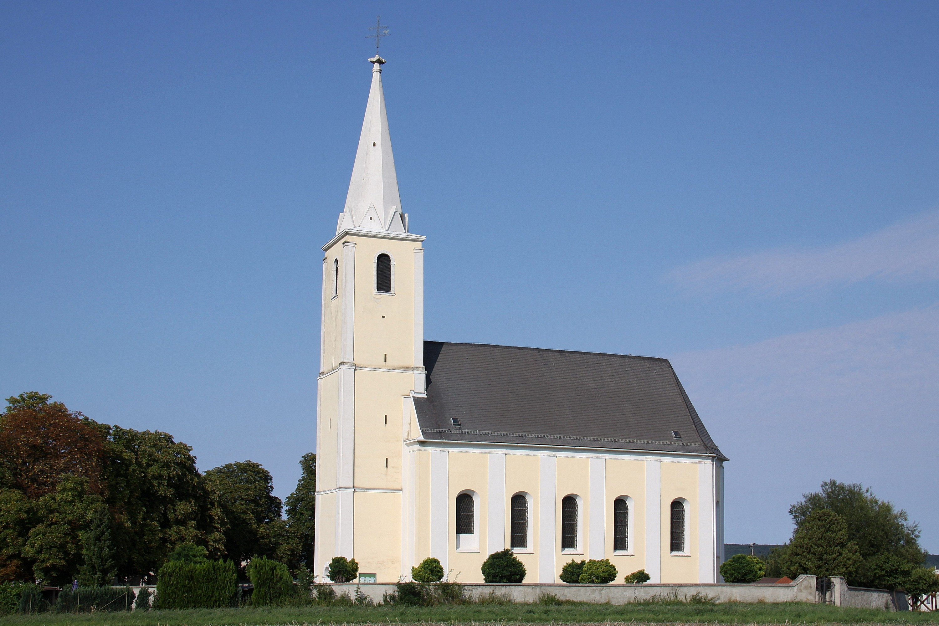 en: - Schattendorf Object location47° 42′ 31.22″ N, 16° 30′ 51.22″ E